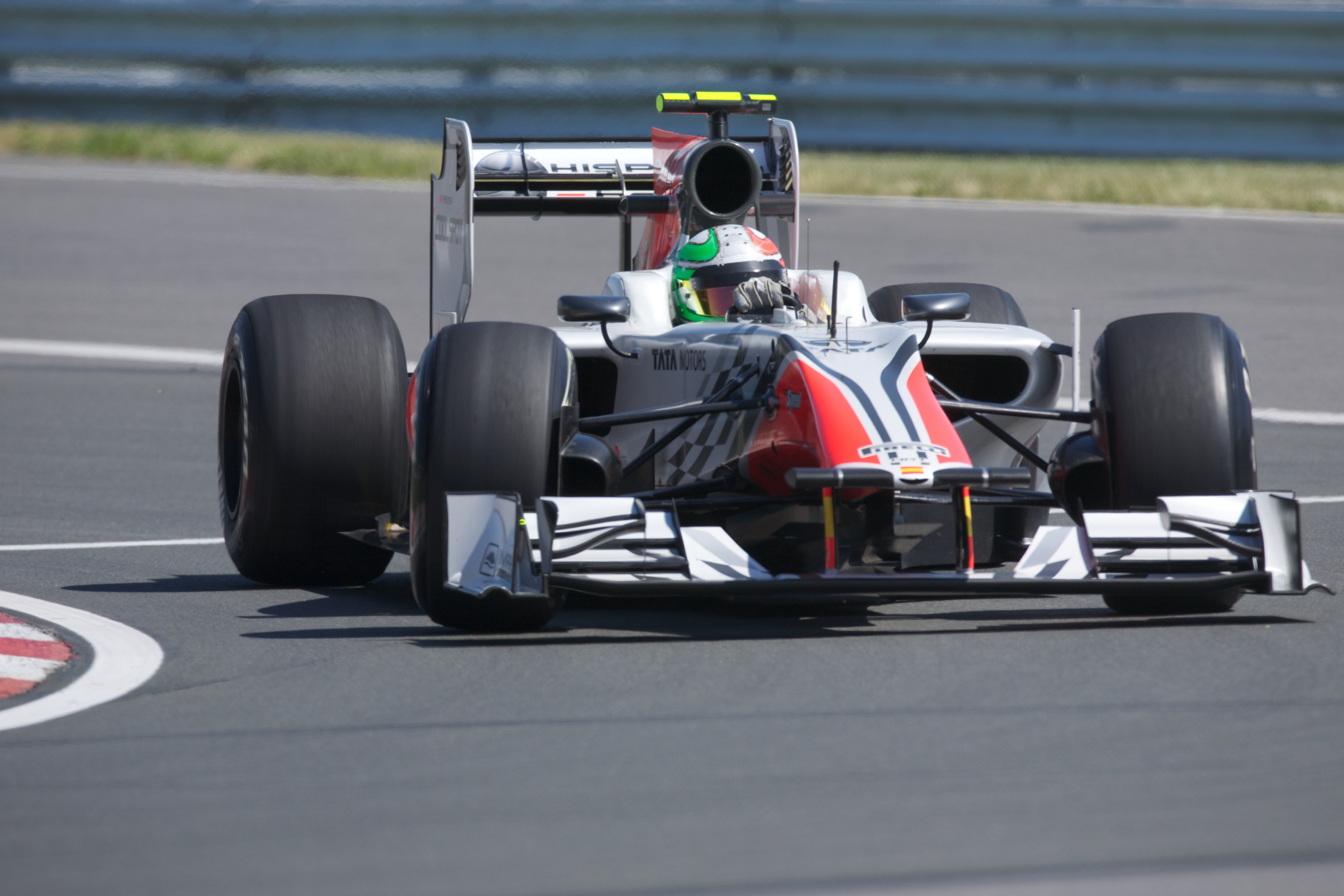 2011 Canadian Grand Prix